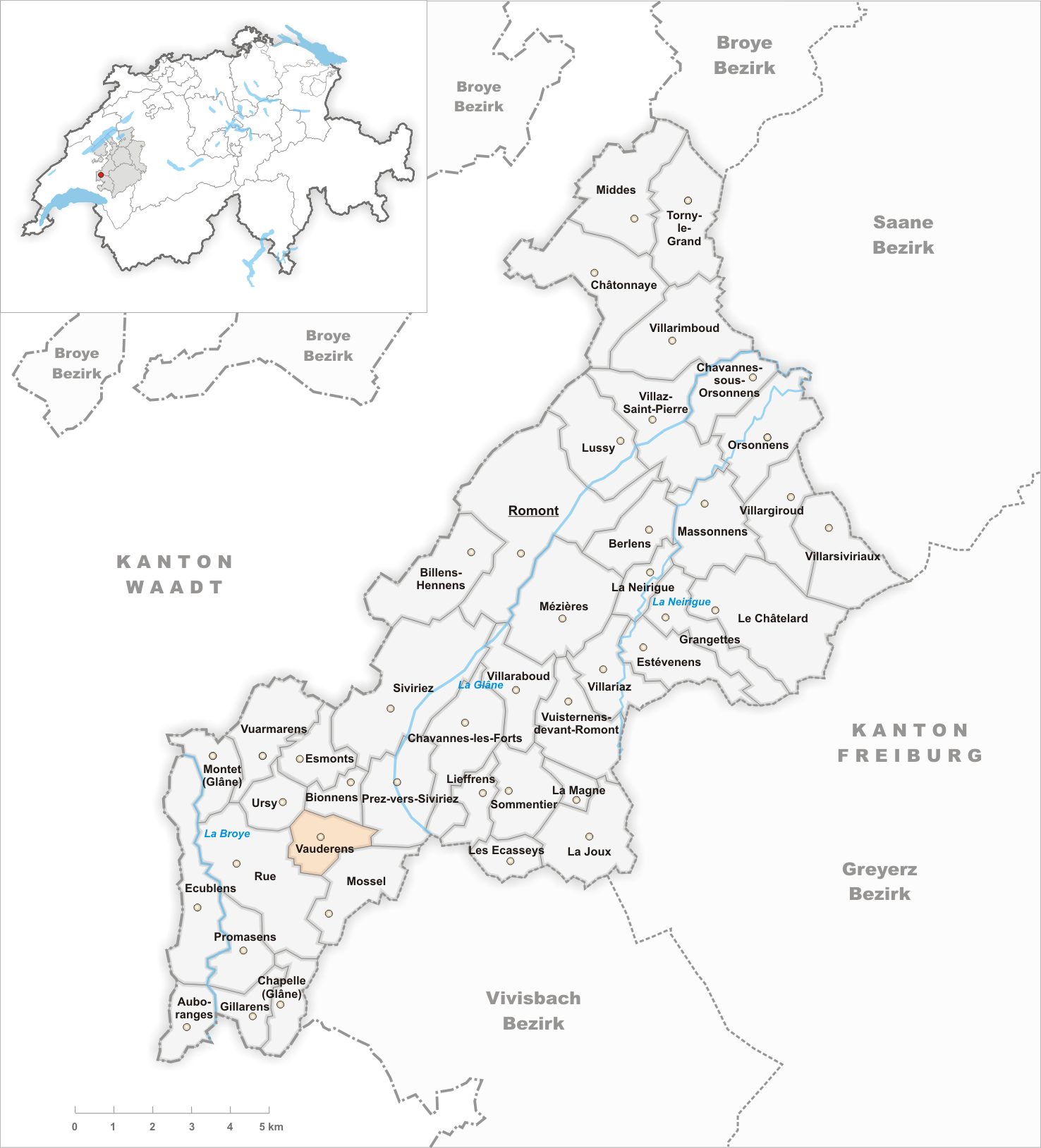 Municipality Vauderens Artist: Tschubby